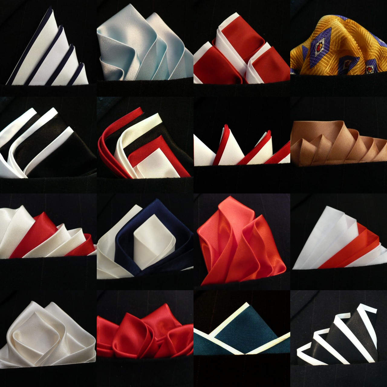 A variety of 16 pocket squares for men.